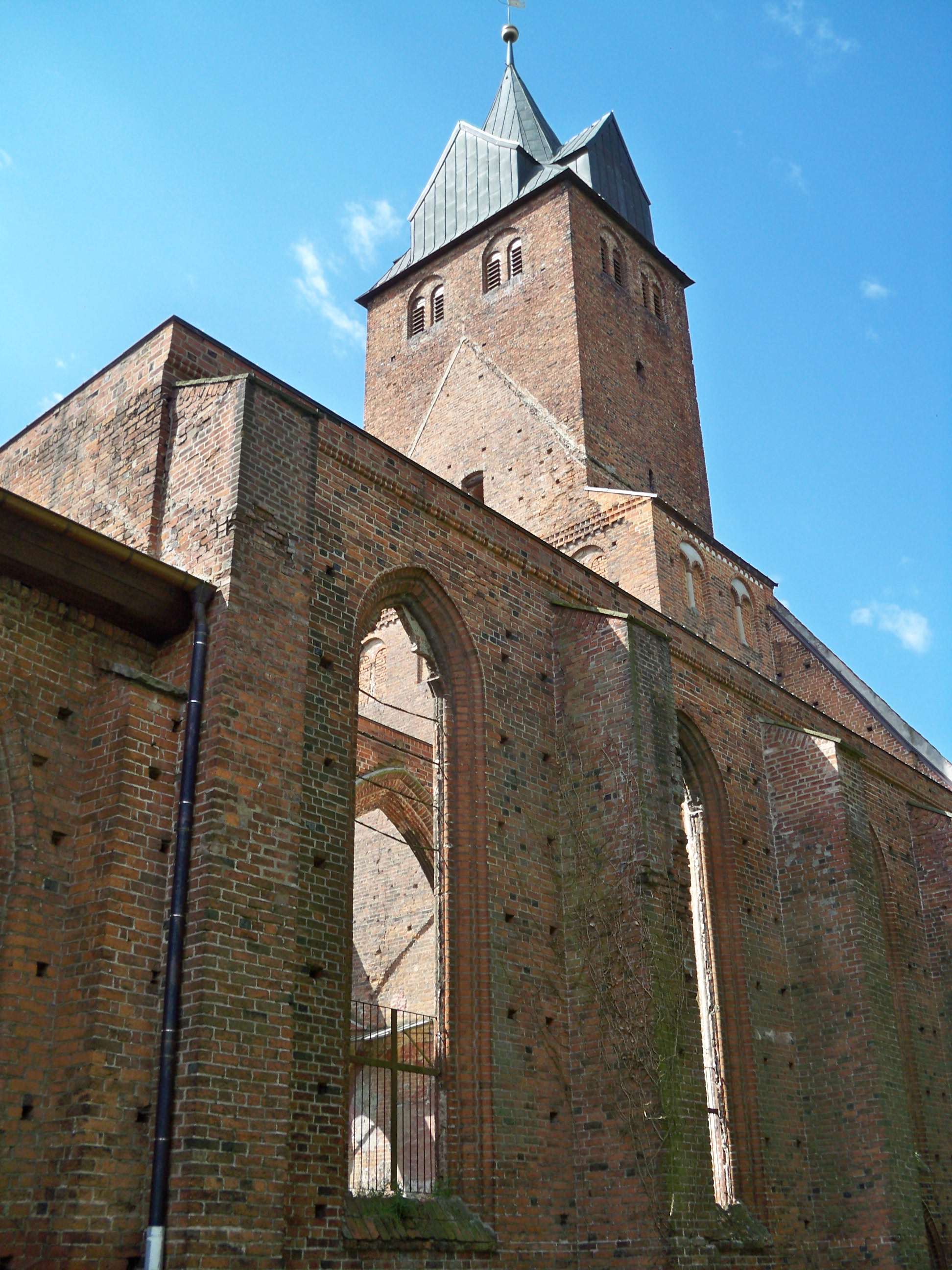 Gardelegen, Saxony-Anhalt, Nikolaikirche from northeast